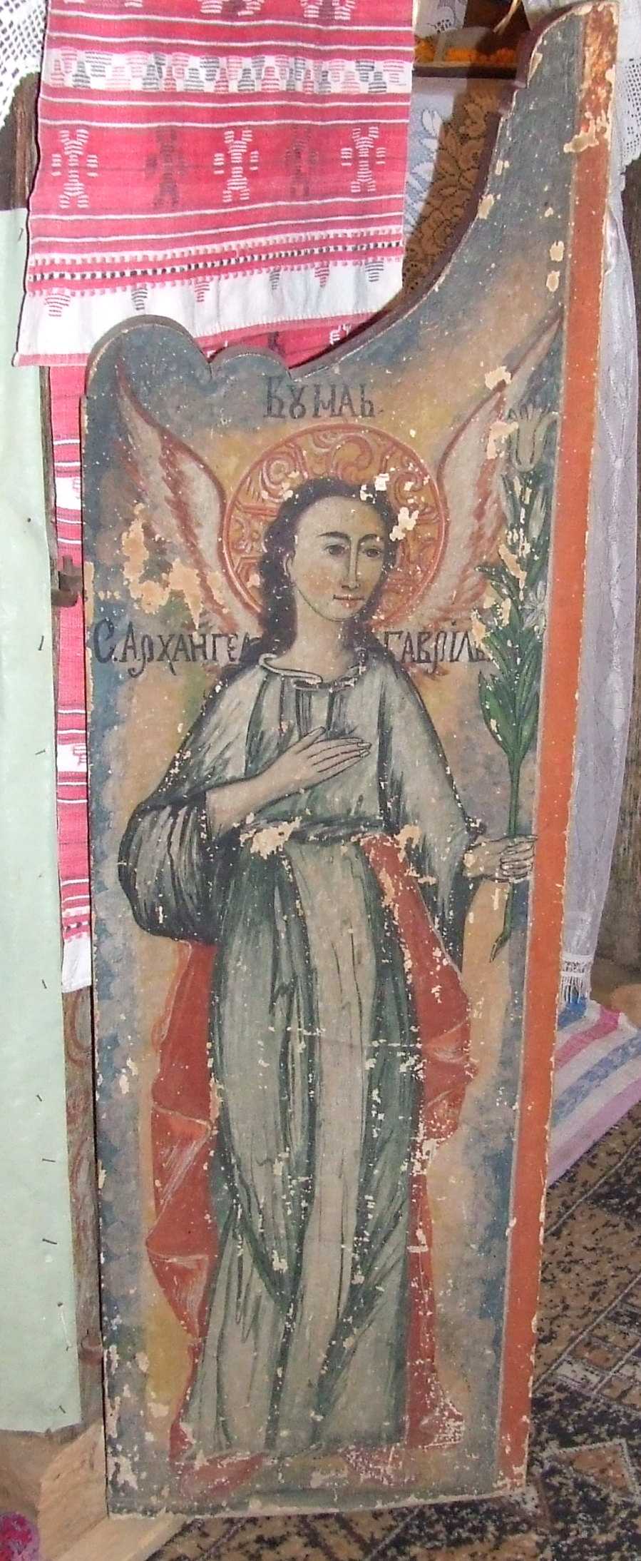 Wooden church in Mierag, Bihor County, Romania